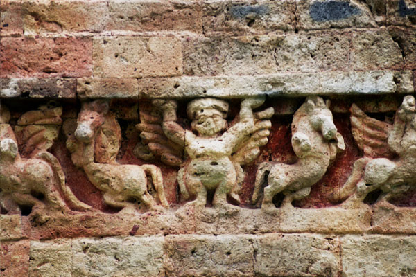 N7 Sanctuary. Sambor Prei Kuk. Cambodia